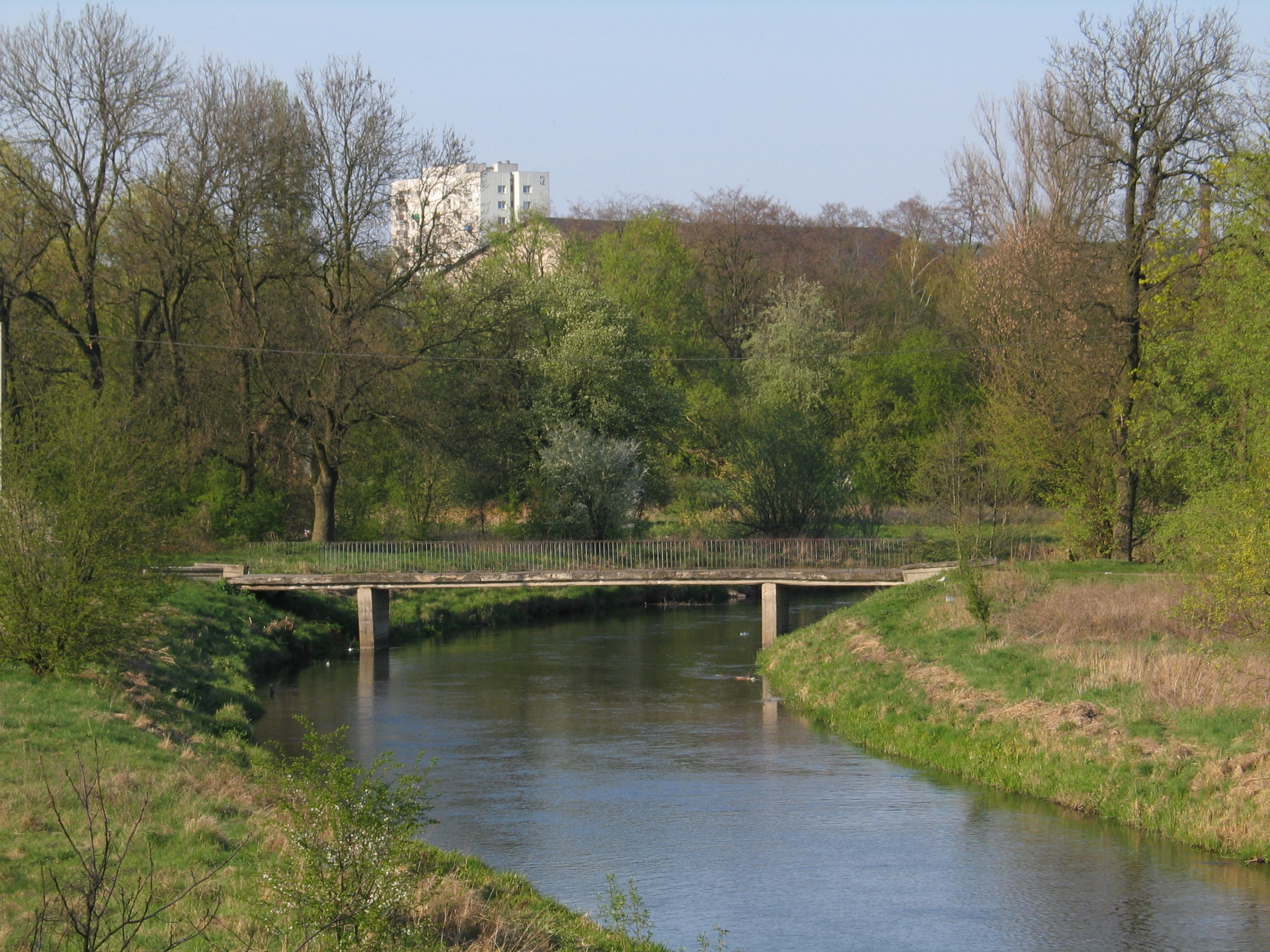 Zgłowiączka River view from Wysoka Street, Włocławek, Poland